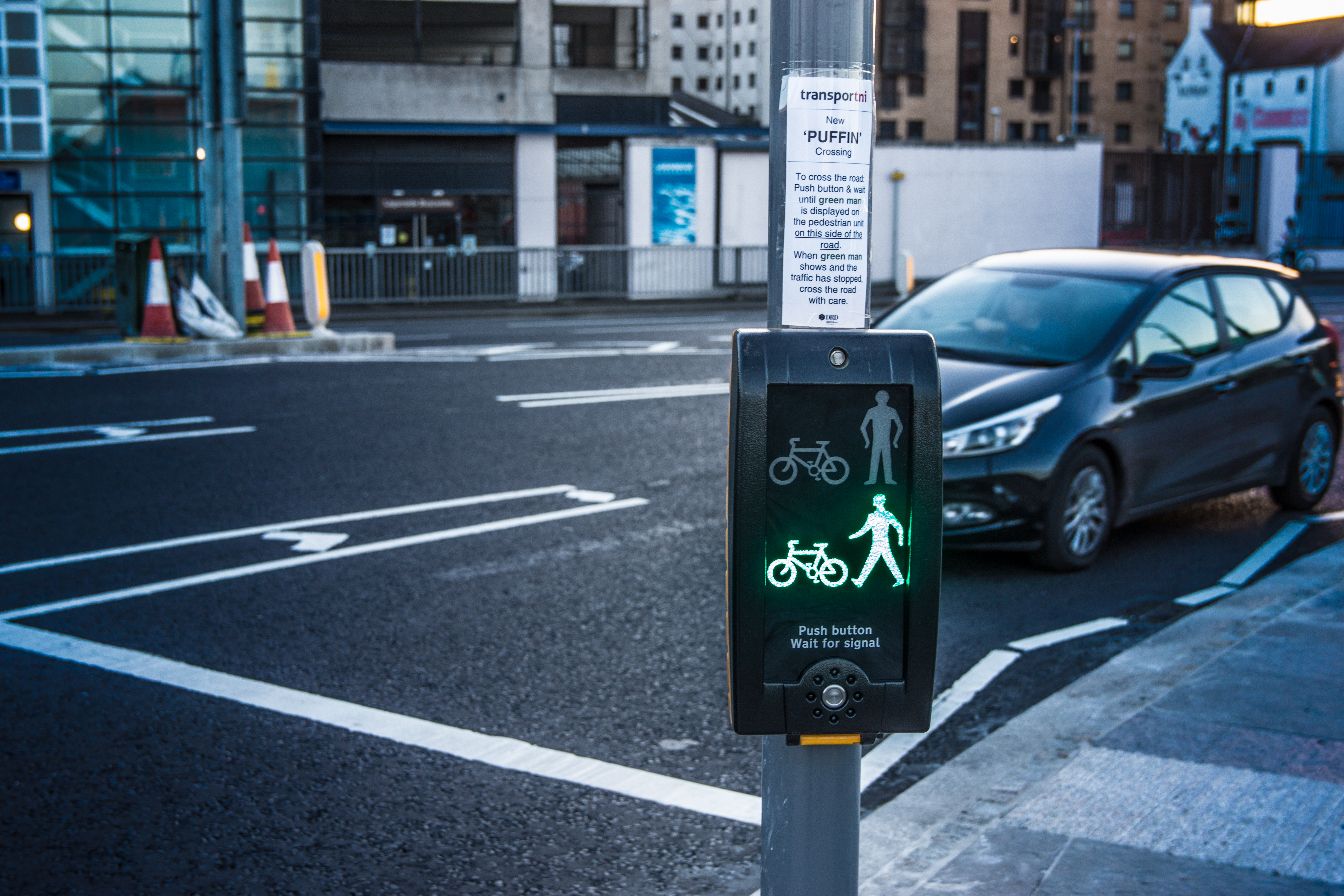 I must admit that I found the fact that there is no actual pedestrian light a bit disconcerting. Maybe it is my imagination but drivers in Belfast appear to travel very fast and aggressively compared to Dublin. There are signs indicating a speed limit of 20 miles per hour but in the area where I took these photographs the cars appeared to be travelling much faster. There are also a large number of boy racers driving very noisy cars in the same area especially at night. Puffin crossing “Puffin crossings make crossing the road easier and safer. They have the Red/ Green Man signals on the same side of the road as you are waiting to cross, allowing you to watch these signals and traffic at the same time.” Safer for pedestrians: the sensors that see you at a Puffin crossing also control the traffic lights making sure you have enough time to cross the road safely. Because there is no flashing traffic light sequence, drivers can no longer start to move until you have finished crossing. You can see the Red/ Green Man box and watch traffic approaching at the same time partially-sighted pedestrians can see the Red/ Green Man signals more easily than a signal on the other side of the road. Better for drivers: traffic lights change to green as soon as the crossing is clear, so drivers will no longer be stopped unnecessarily if there are no pedestrians on the road. Traffic won’t be stopped if pedestrians push the button and then cross the road before the traffic lights change to red, or if they push the button, then change their mind and walk away from the crossing.